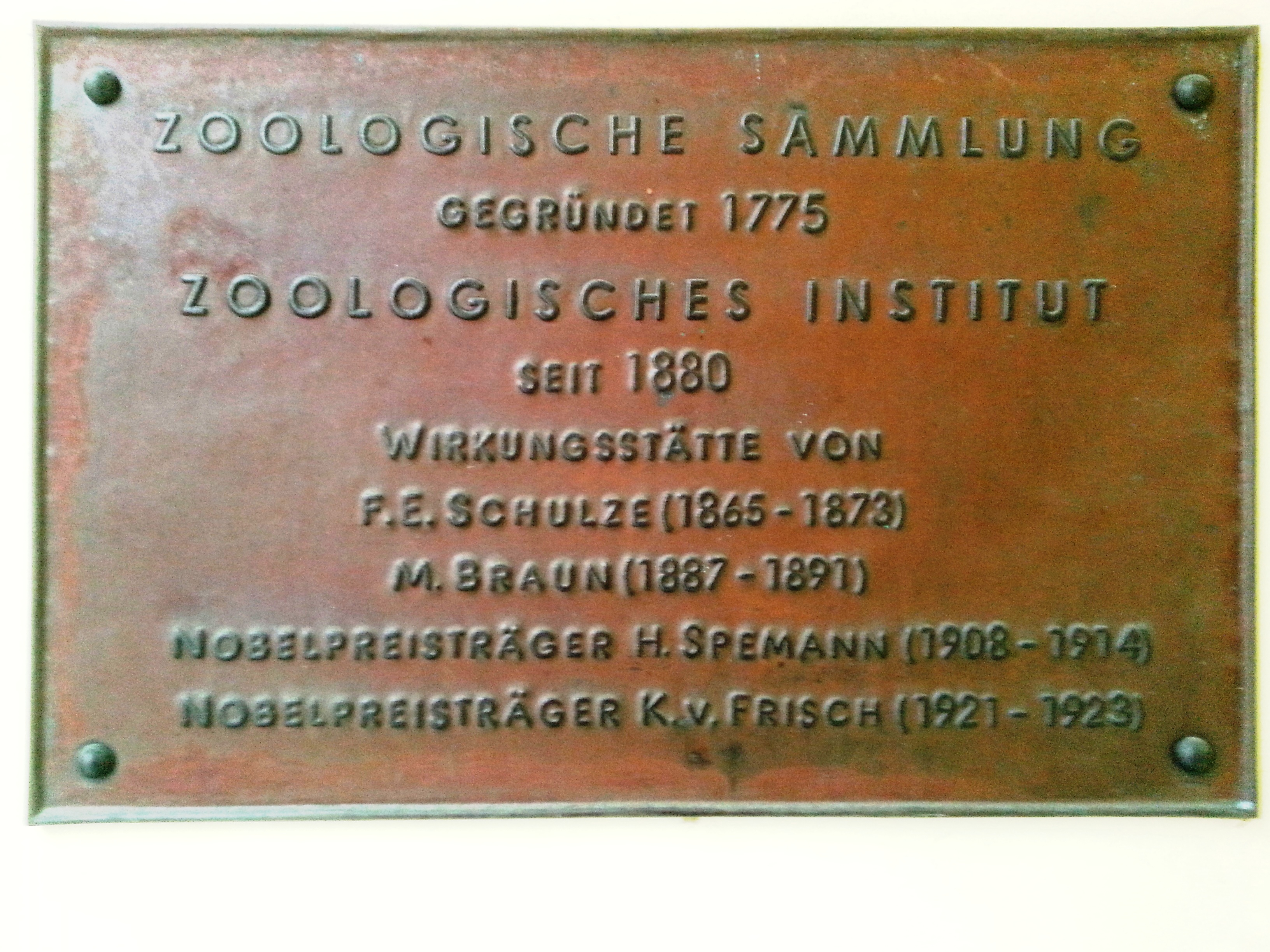 Plaque on Zoologisches Institut of the Rostock University, referring to Nobel laureates of the institute, in the Mittelstadt (Middle Town) of the historic city centre, Rostock, Mecklenburg, Germany